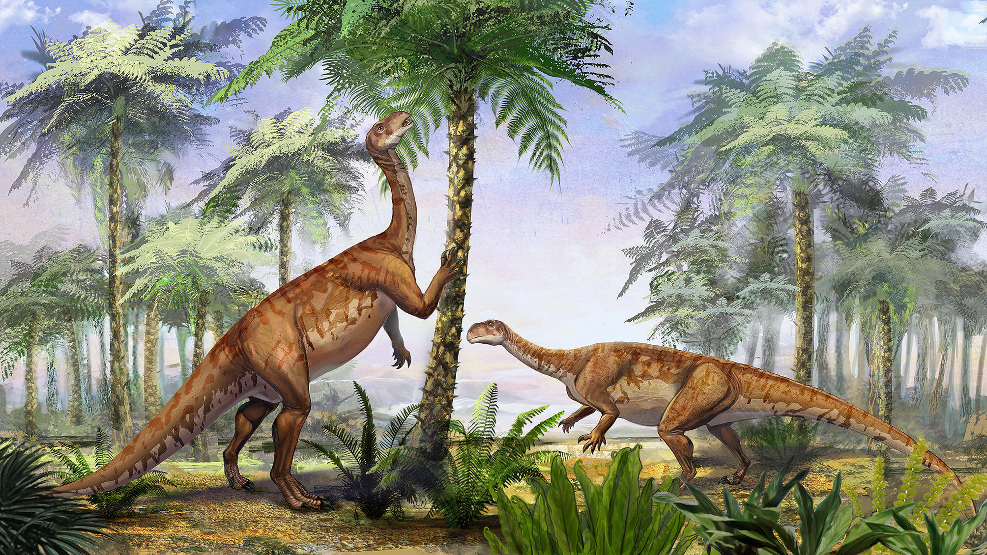 Irisosaurus yimenensis life restoration.